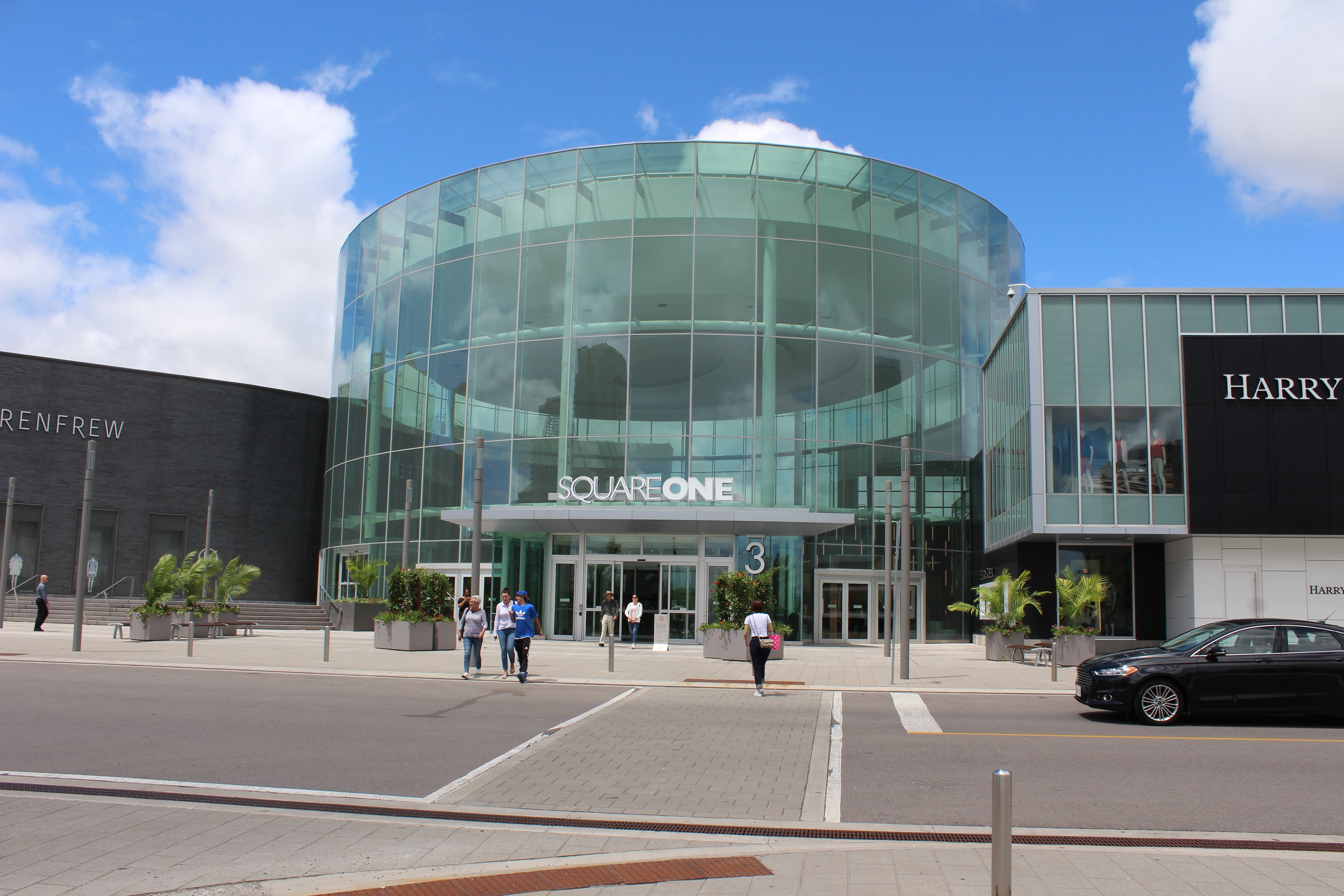 Square One Shopping Centre, Mississauga. Main entrance.